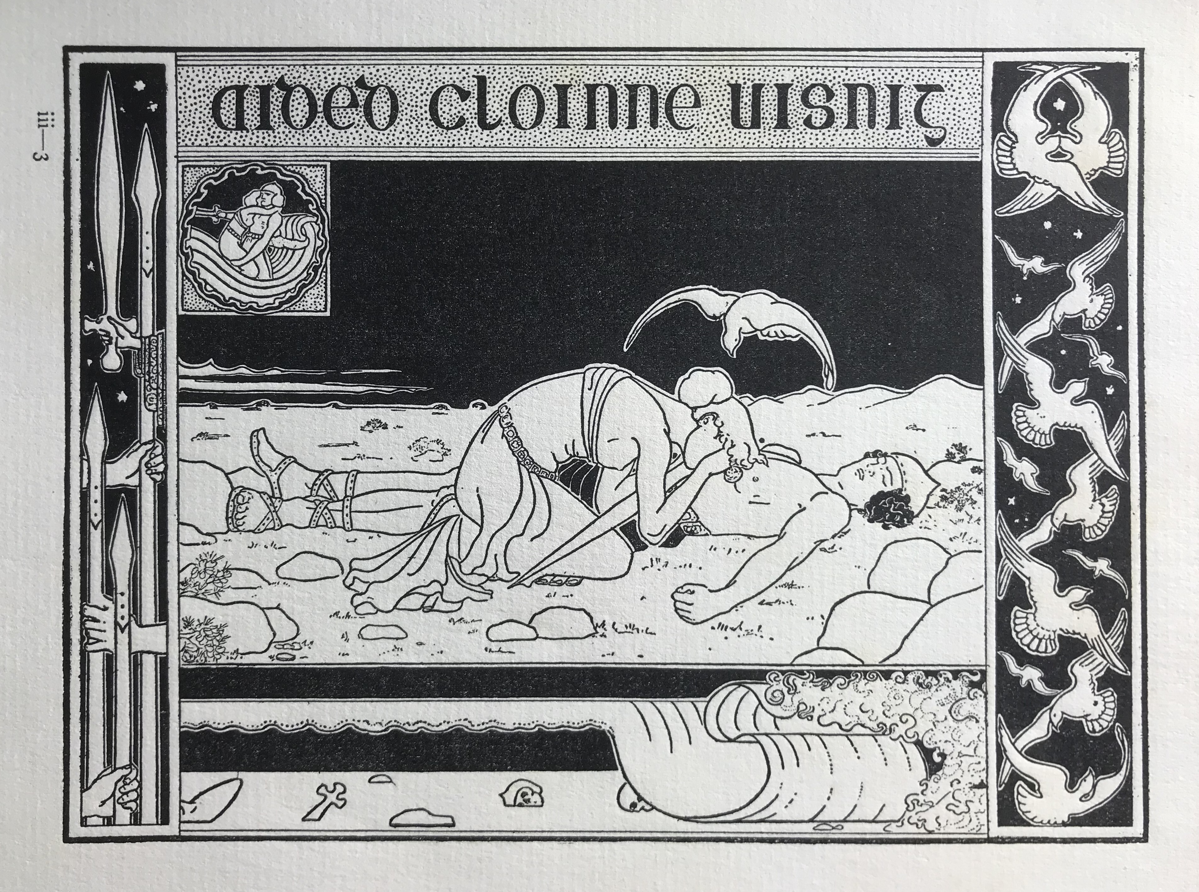 "Aided Cloinne Uisnigh" (The Violent Death of the Children of Uisnigh), published as "Deirdre", woodcut on laid paper by Althea Gyles